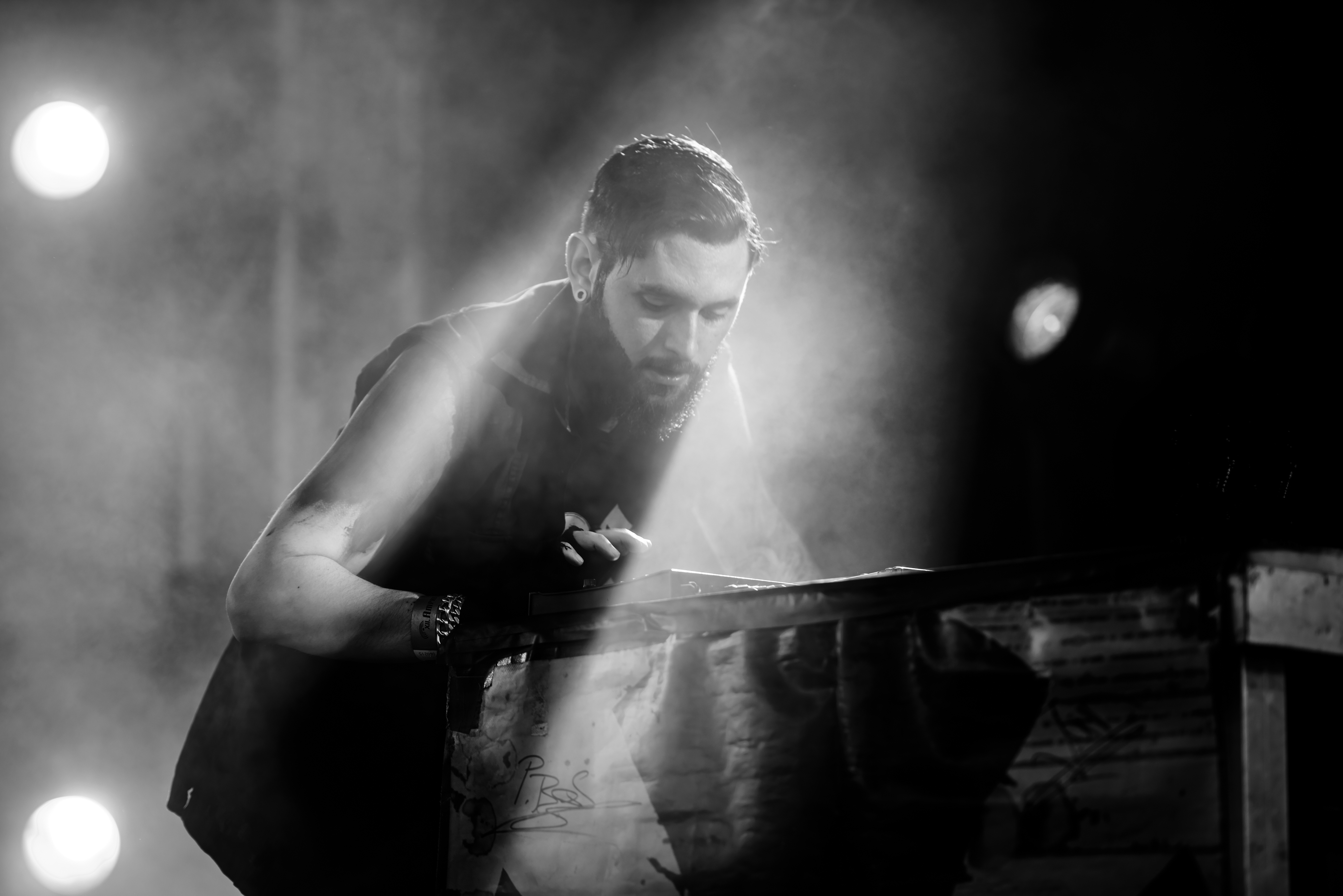 X-Rx; Amphi festival 2016